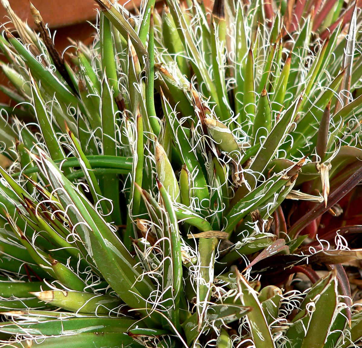 Photo of Agave parviflora at the University of California Botanical Garden